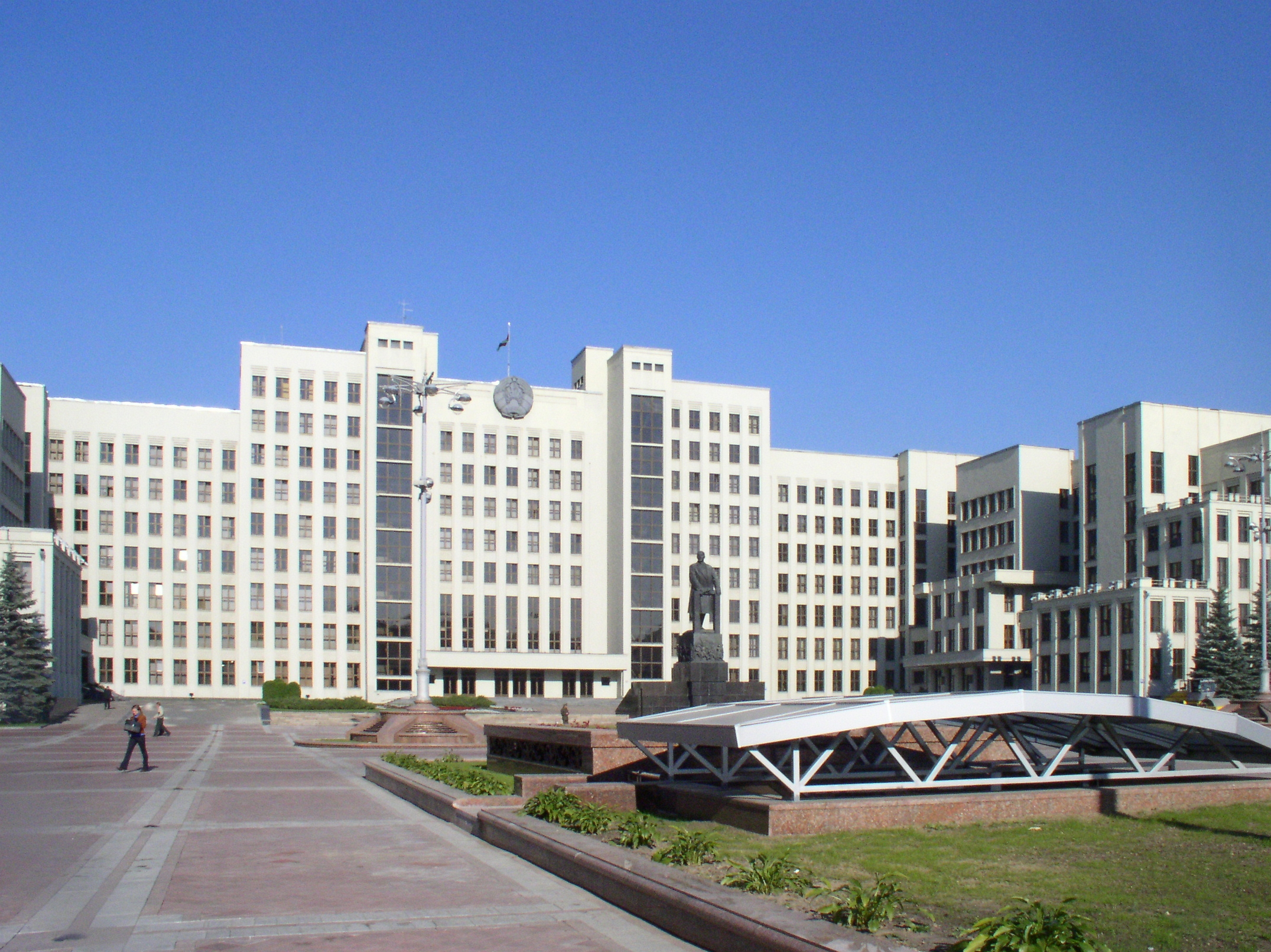 Independence square. Minsk, Belarus.